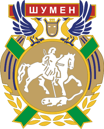 City coat of arms of Shumen, Bulgaria